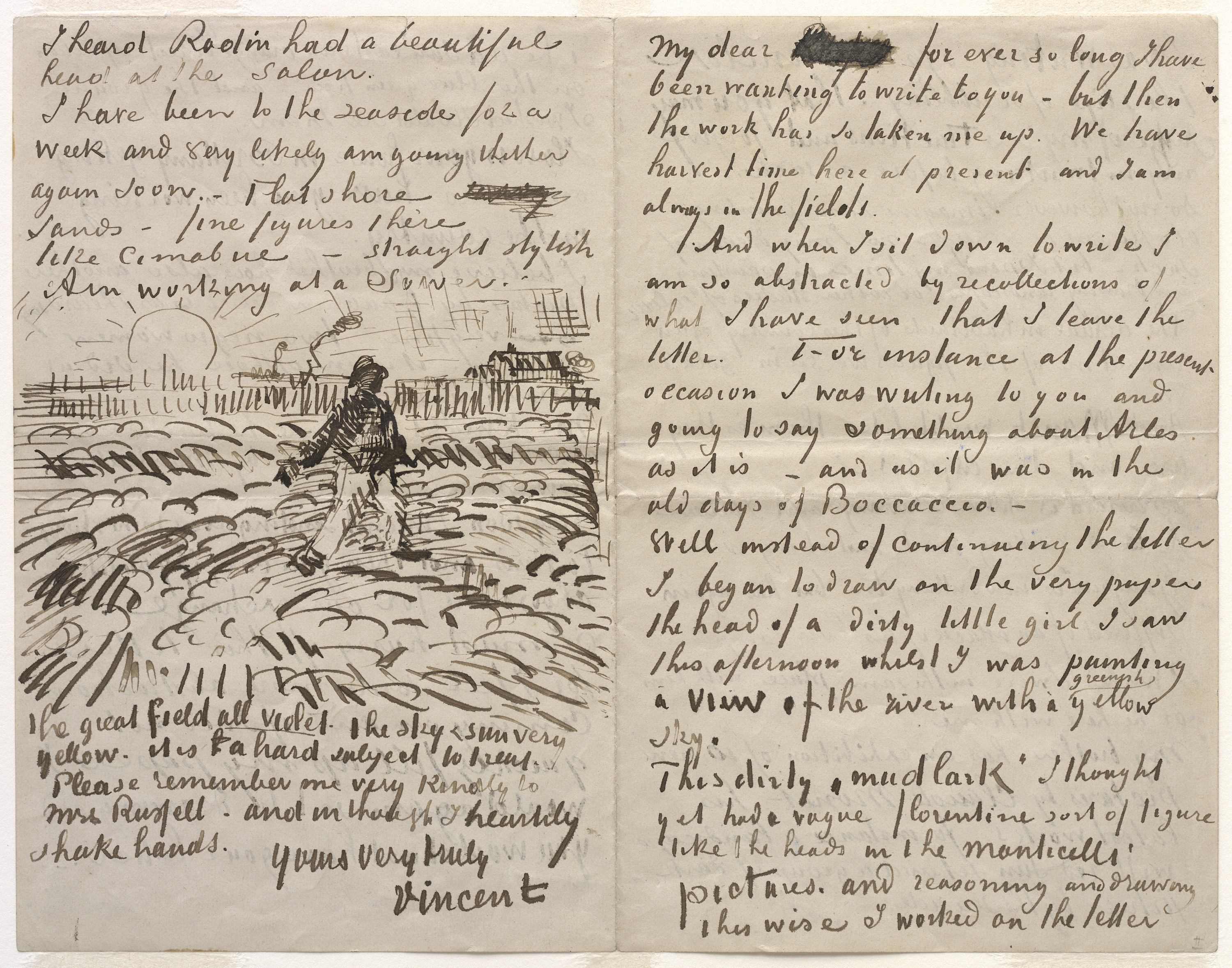 "My Dear Russell for ever so long I have been wanting to write to you - but then the work has so taken me up. We have harvest time at present and I am always in the fields. And when I sit down to write I am so abstracted by recollections of what I have seen that I leave the letter... This file was provided to Wikimedia Commons by the Solomon R. Guggenheim Museum as part of a cooperation project. The Solomon R. Guggenheim Museum provides images depicting artworks which are public domain or licensed under a free license.